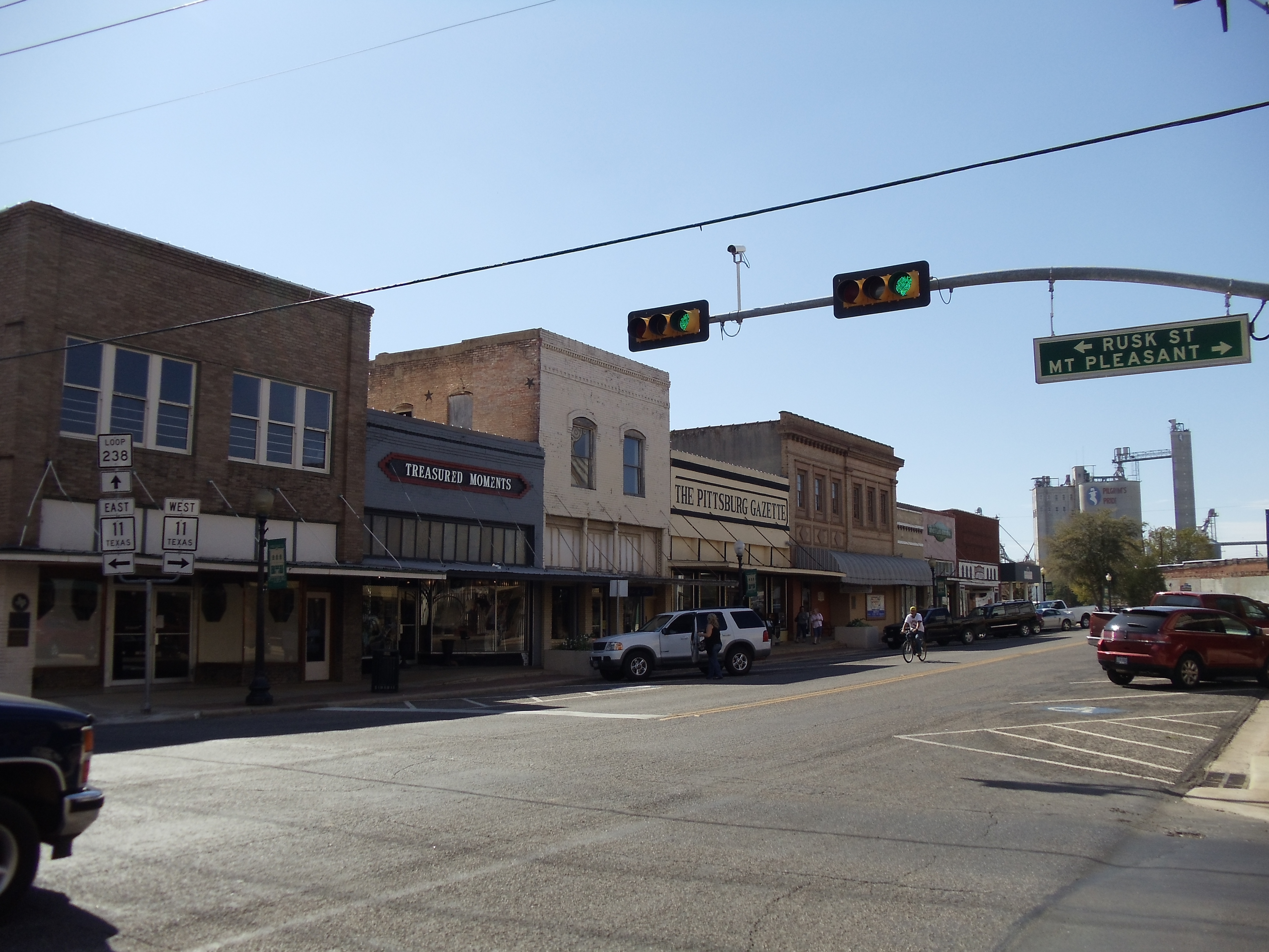 Pittsburg, Texas: south (even) side of 100 block of Quitman St. (Texas State Highway Loop 238) looking west from northeast corner with Mt. Pleasant Street/Rusk Street (Texas State Highway 11). Included buildings: Treasured Moments, The Pittsburg Gazette, and Dewey's Land Surveying in foreground; Pilgrim's Pride silos (on S. Texas St.) in background.